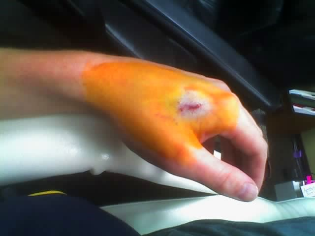 Photo of Amal Graafstra, a Washington state native and business owner, just after an operation to insert an RFID chip implanted in his left hand.